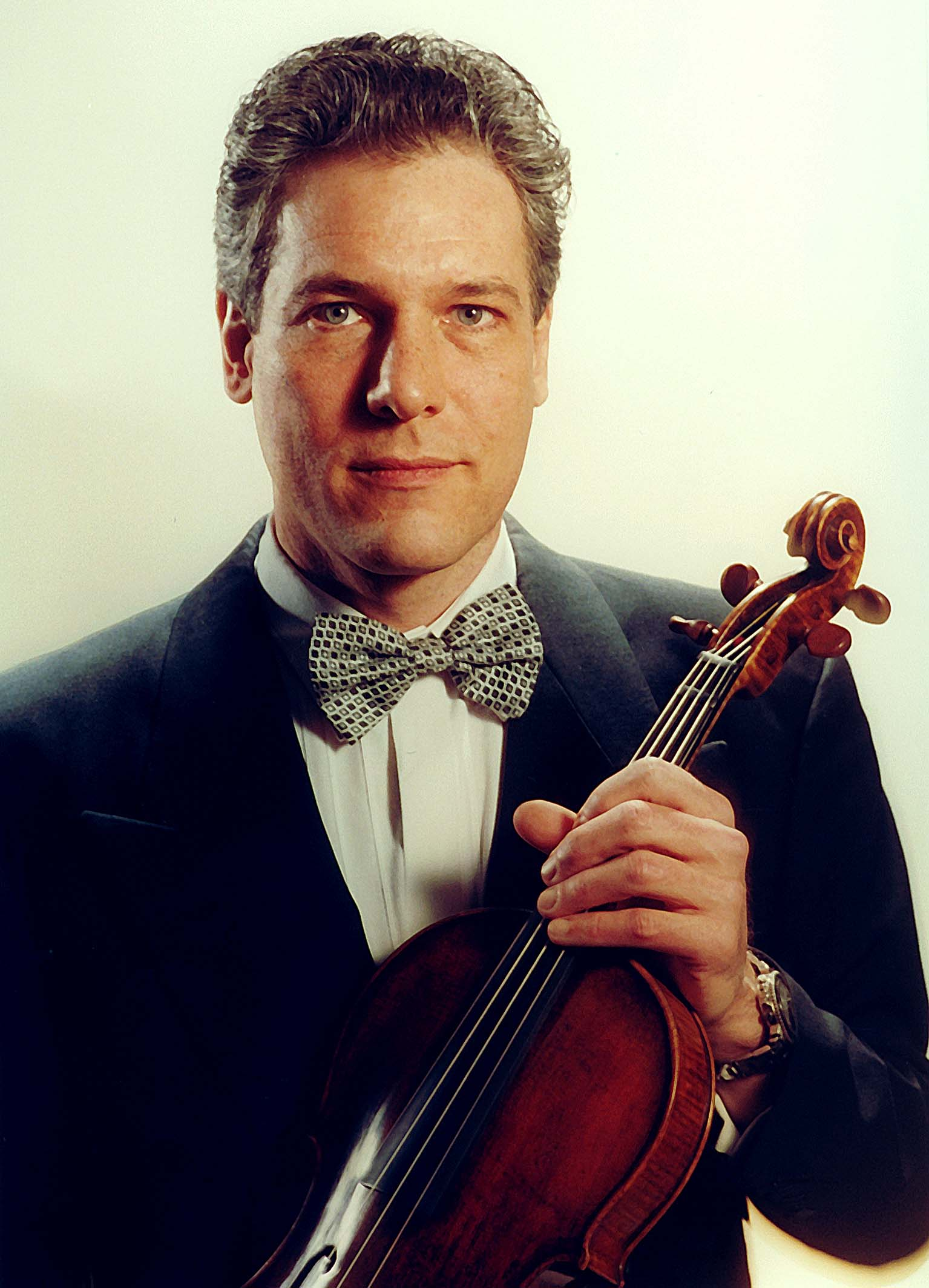 Prof. James P. H. Creitz